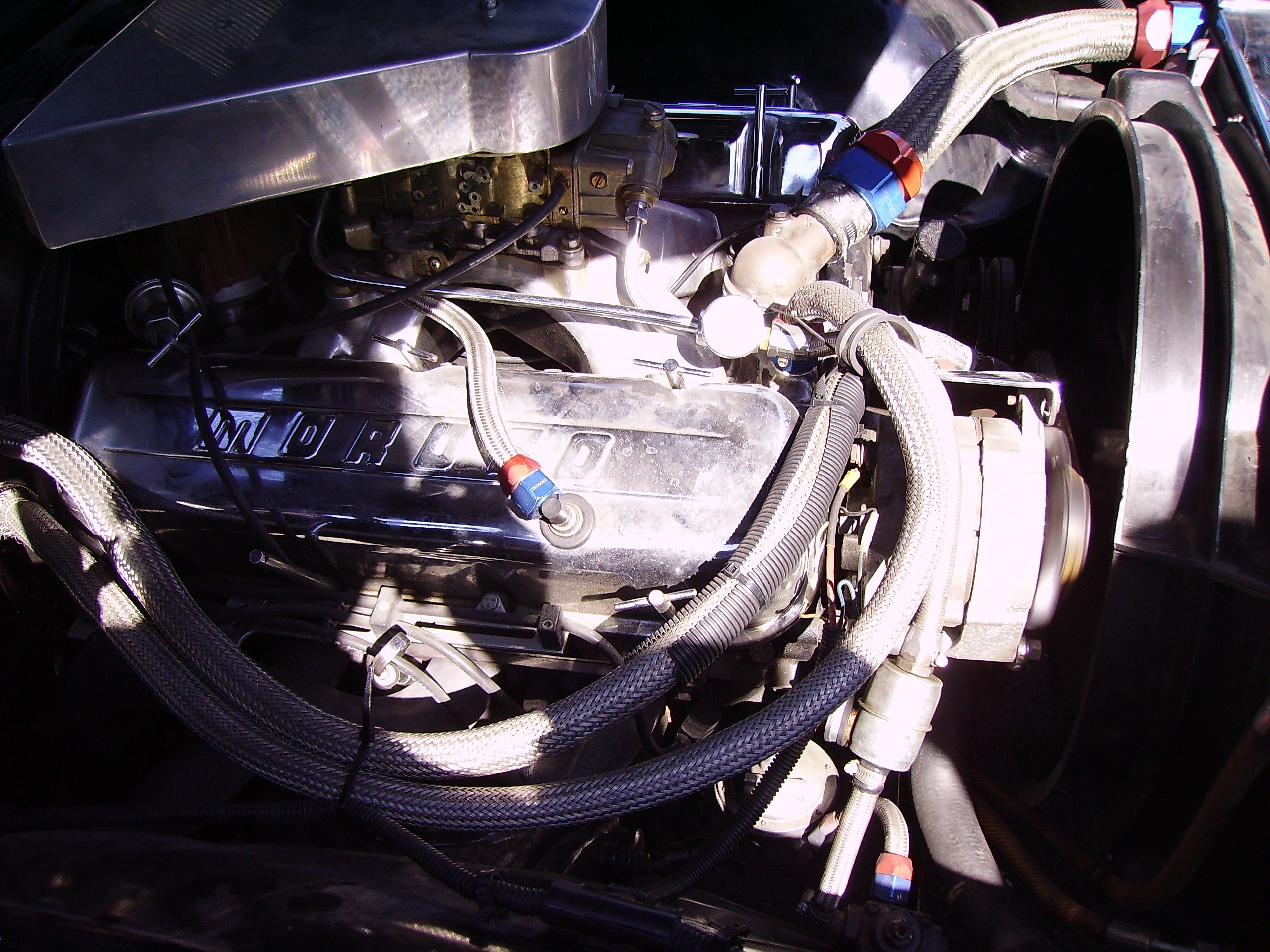 V8 american automobile engine. Stainless steel hoses. Valve covers by Moroso.